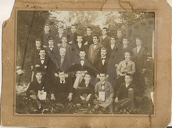 Ptilep Bulgarian School Teachers and Students